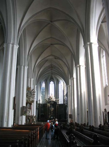 Description: Inside view of St. Marien Kirche in Berlin. Source: self-made, I release it into the public domain.